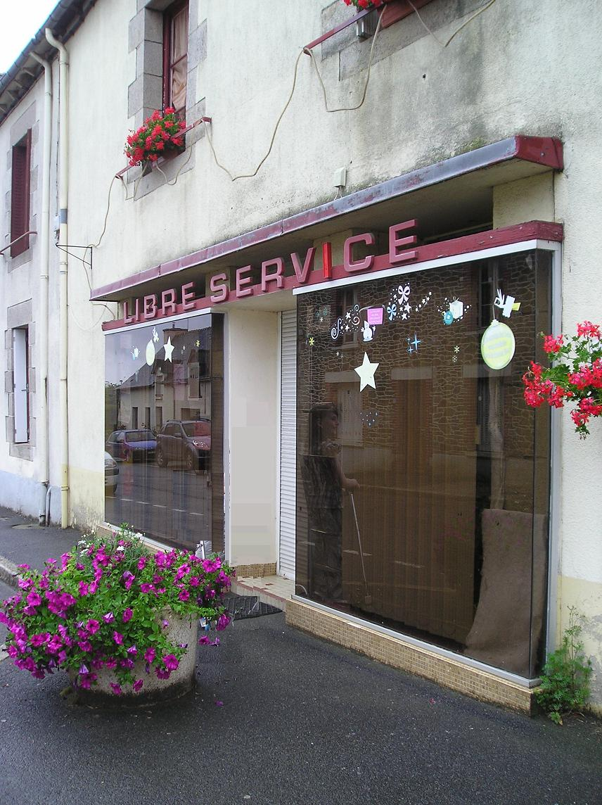 Libre Service in Le Cambout, as pictured July 2008.